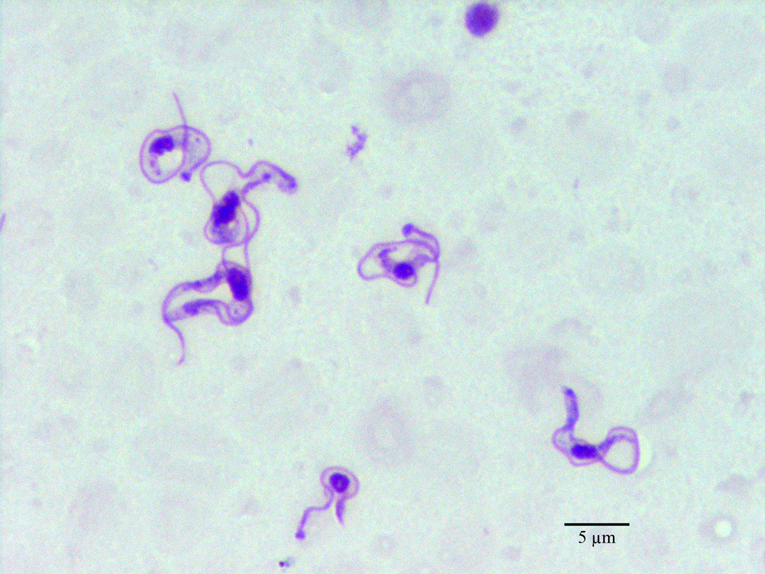 Trypanosoma evansi, dog, Giemsa-stained blood smear. Figure 2 from paper.